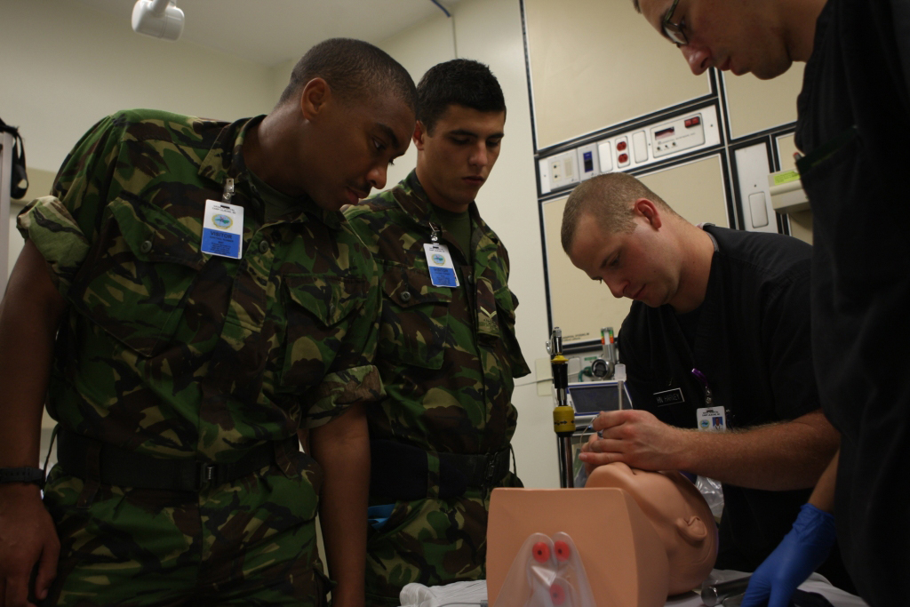 Bermuda Regiment Medics training with US Navy Corpsmen at Naval Hospital Camp Lejeune, on United States Marine Corps Base Camp Lejeune 12 May 2011.